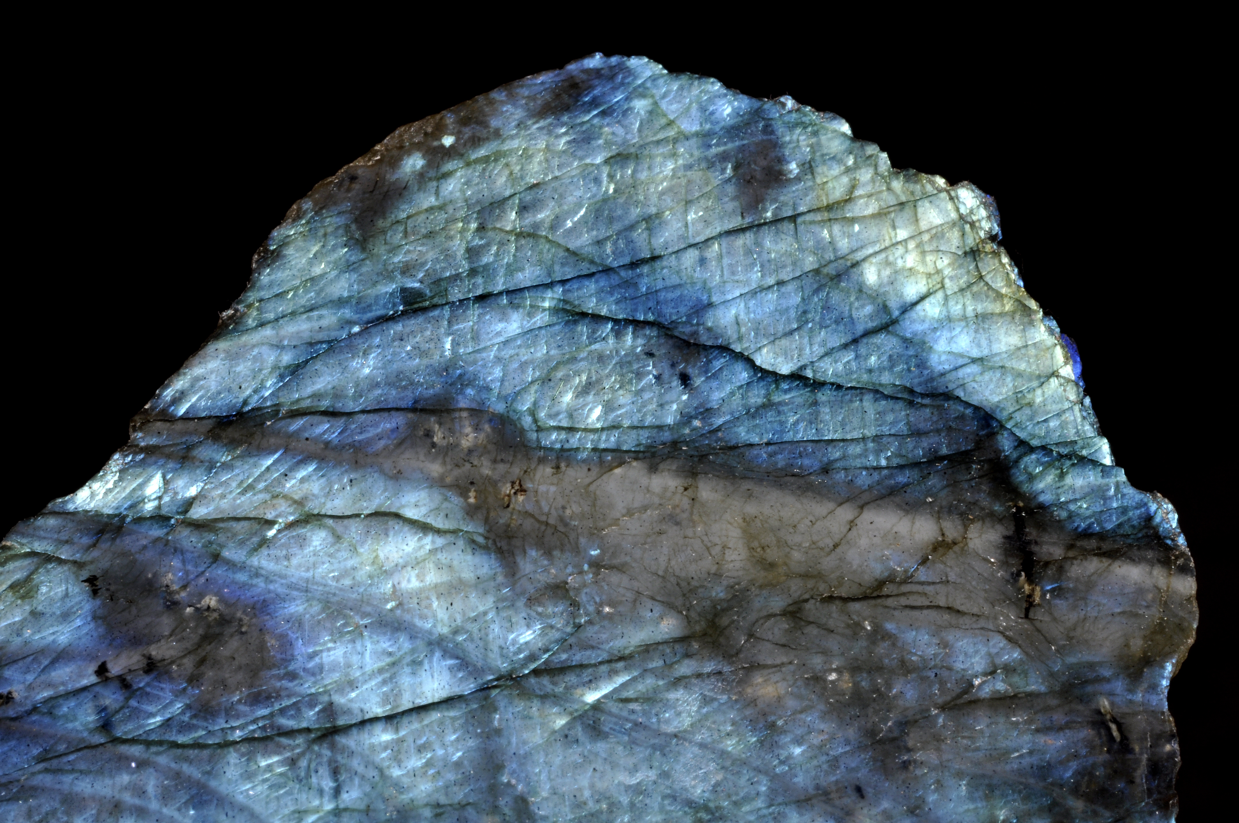 Labradorite